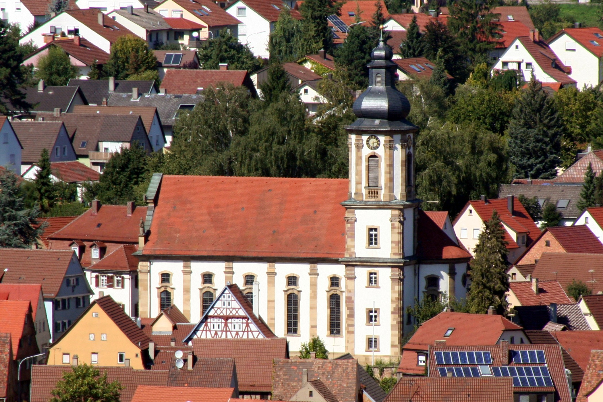 The catholic church St Martinus in Erlenbach (Heilbronn district), photographed from the Schemelsberg hill in Weinsberg